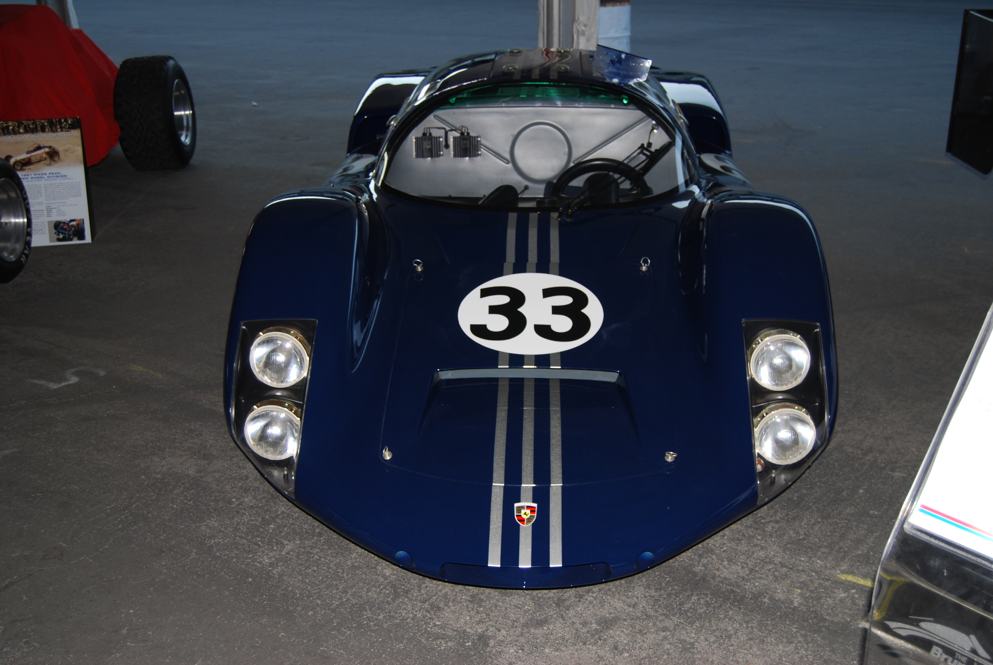 This car won the sports car race at Laguna Seca on two successive years. (1967, 1968) as well as the 1967 Daytona, driven by Joe Buzzetta and Peter Gregg, making it the winningest 906 of all time. DSC_0309